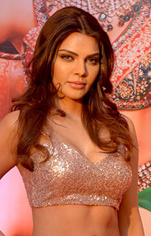 Sherlyn Chopra snapped at Tunu Tunu album launch